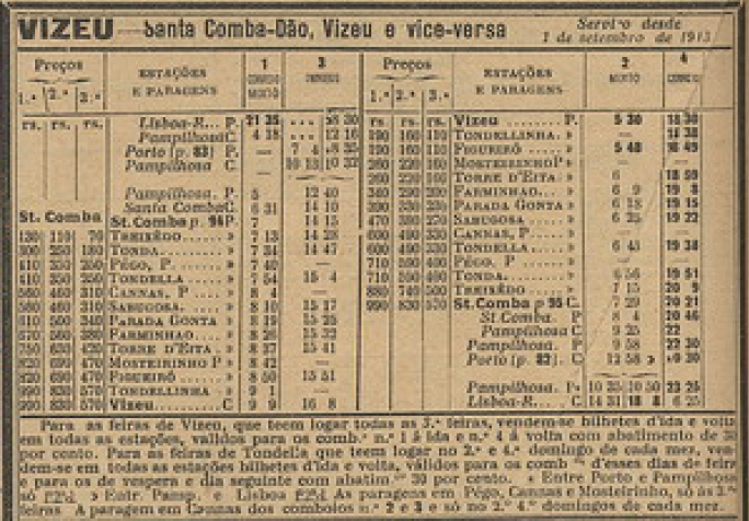 Timetable of the Linha do Dão (Dão Railway), from Viseu to Santa Comba Dão, in Portugal, on the 5th September 1913. This image was published on the Guia Official dos Caminhos de Ferro de Portugal No. 168, of October 1913, and scanned by the Biblioteca Nacional de Portugal.